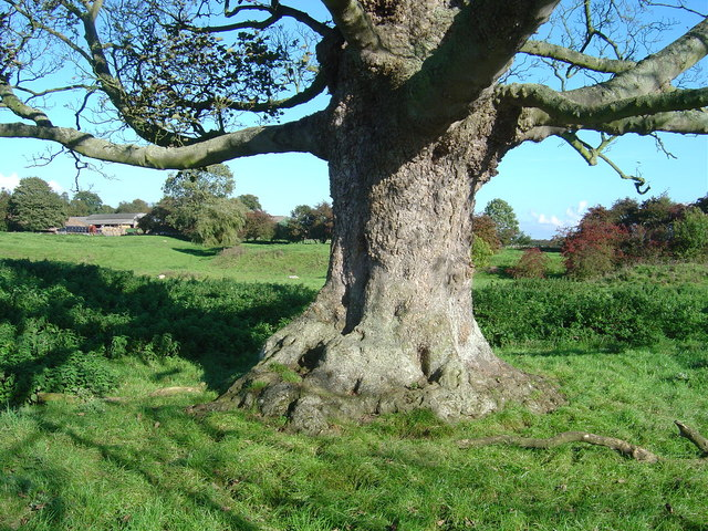 Site of village of Eastburn, East Riding of Yorkshire, England.All that can be seen are these lumps and bumps with this ancient sycamore tree the only thing possibly old enough to date from its habitation.